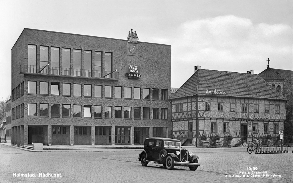 The Town Hall at the Main Square in Halmstad. In the building to the right is a café. Rådhuset vid Stora Torg i Halmstad. I byggnaden till höger ett konditori. Parish (socken): Halmstad Province (landskap): Halland Municipality (kommun): Halmstad County (län): Halland Photograph by: Unknown. Almquist & Cöster Date: 1938-1949 Format: Cliché, glass plate with text Persistent URL: Read more about the photo database (in english)